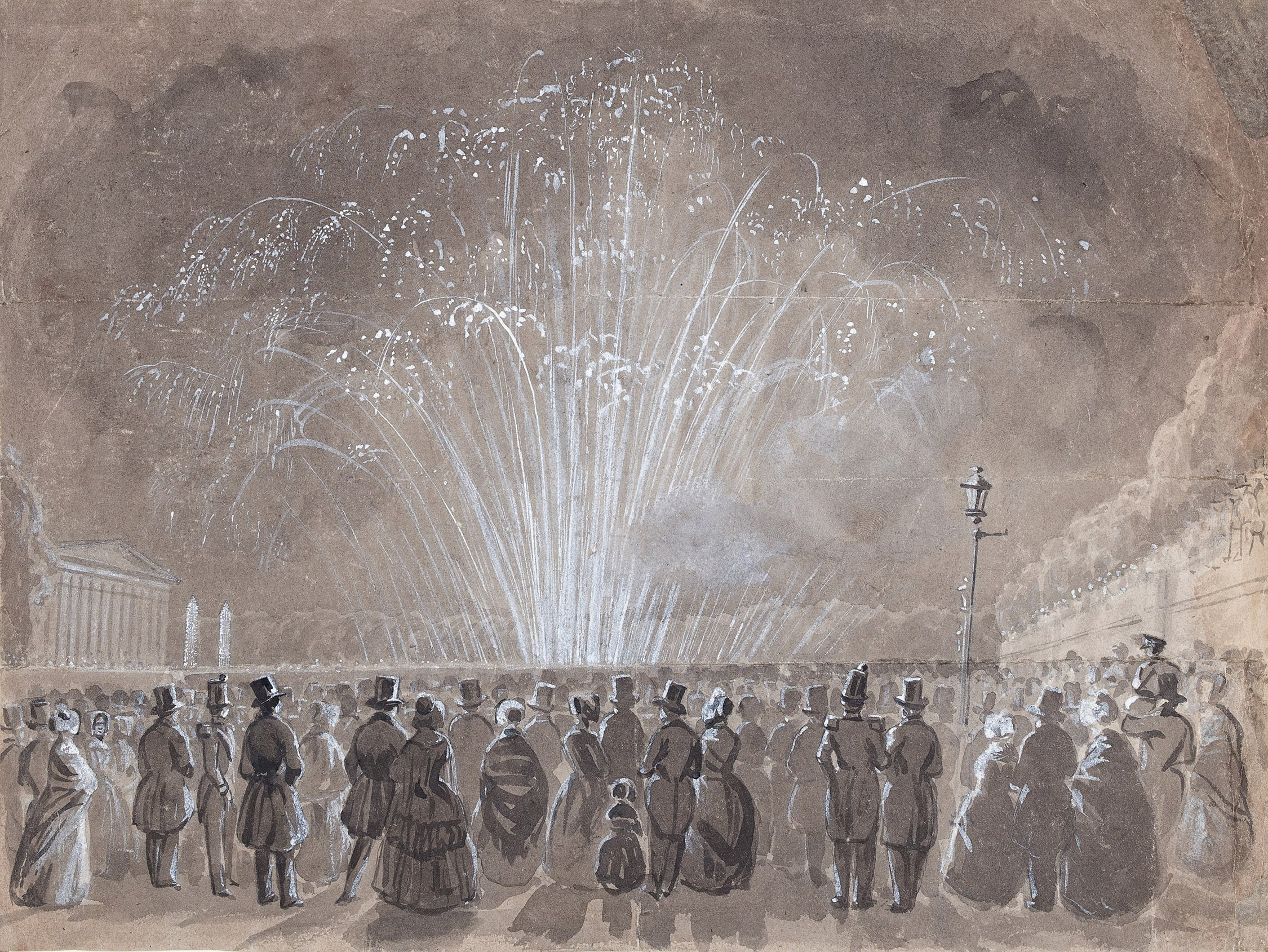 A firework display. Watercolour and gouache. Possibly a record of the firework display in Paris given by Napoleon III on Queen Victoria’s visit in 1855. Provenance: an album of studies by Landells. 7.75x10.25 inches. Offered for sale by Abbott and Holder in August 2019.